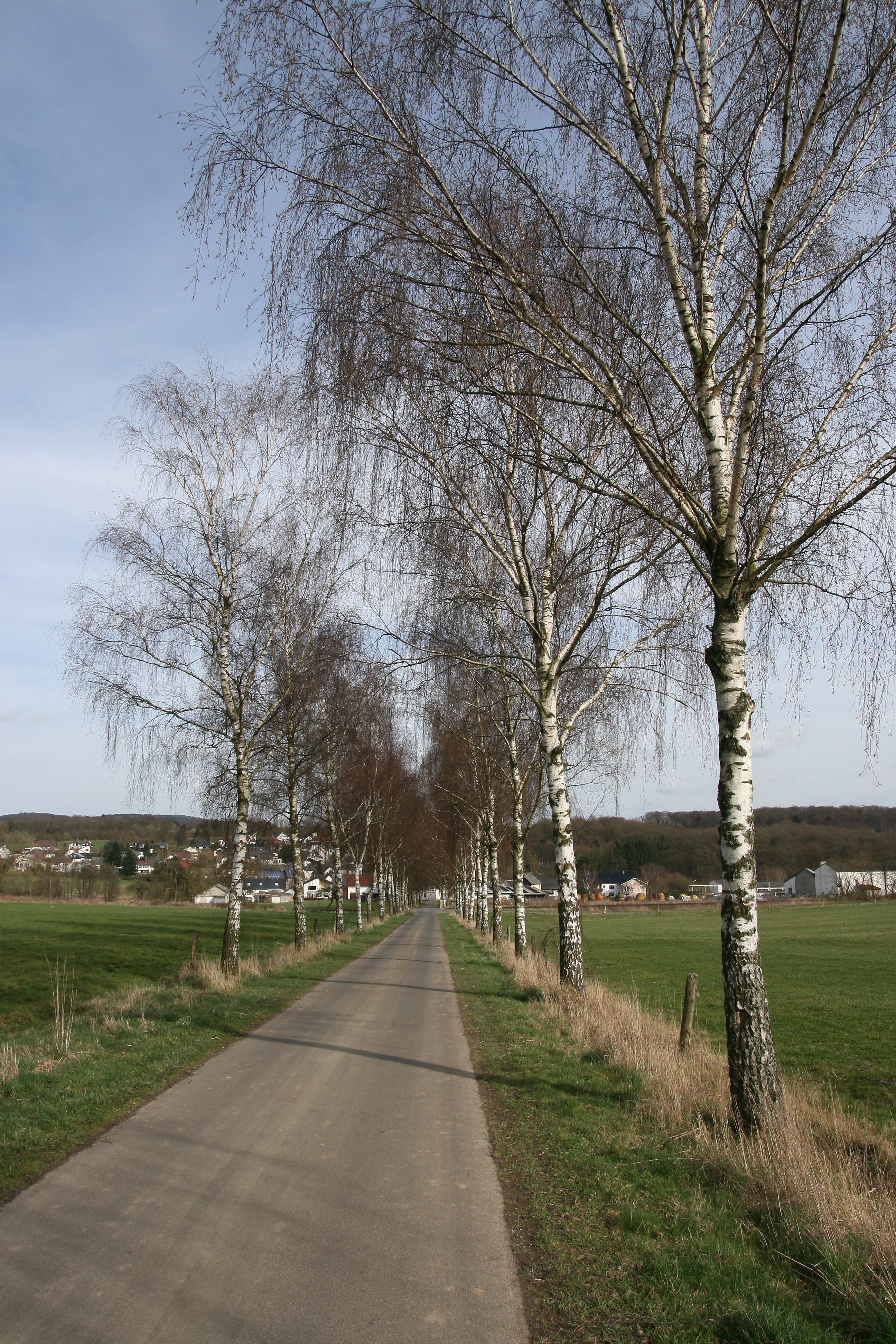 Birch alley near Goddert, Westerwald, Germany. The alley frames the track to Marienrachdorf.